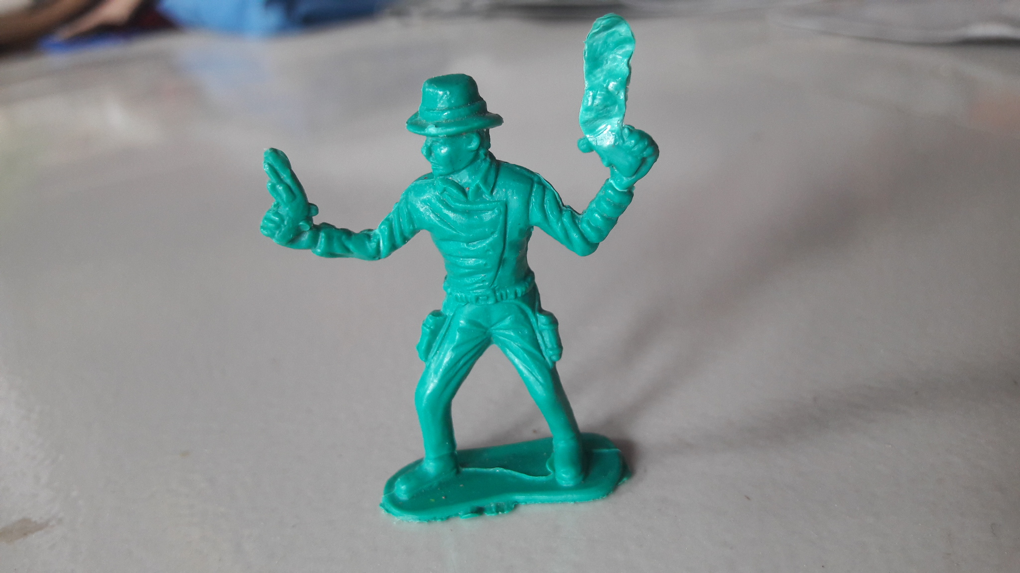 A small toy that has been used by childrens.